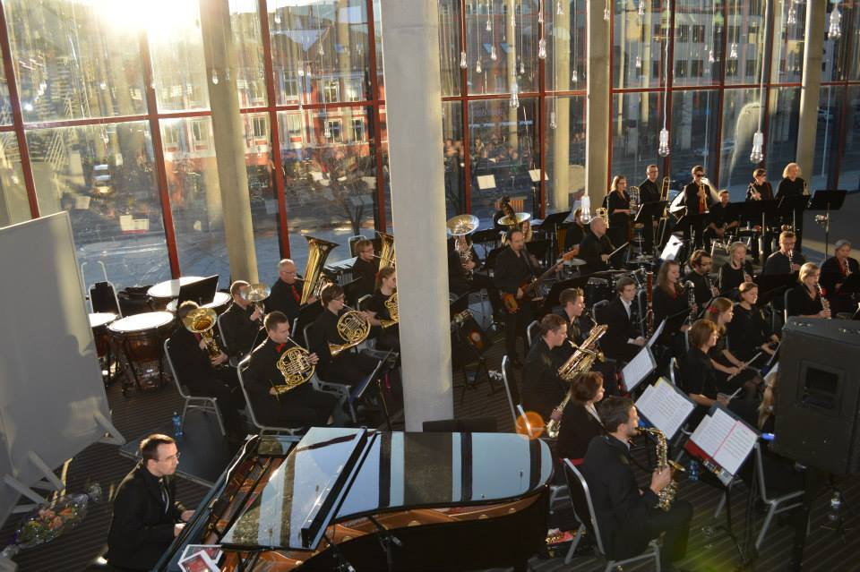 Seniorkonsert i Grieghallens Foajé, 10. november 2013